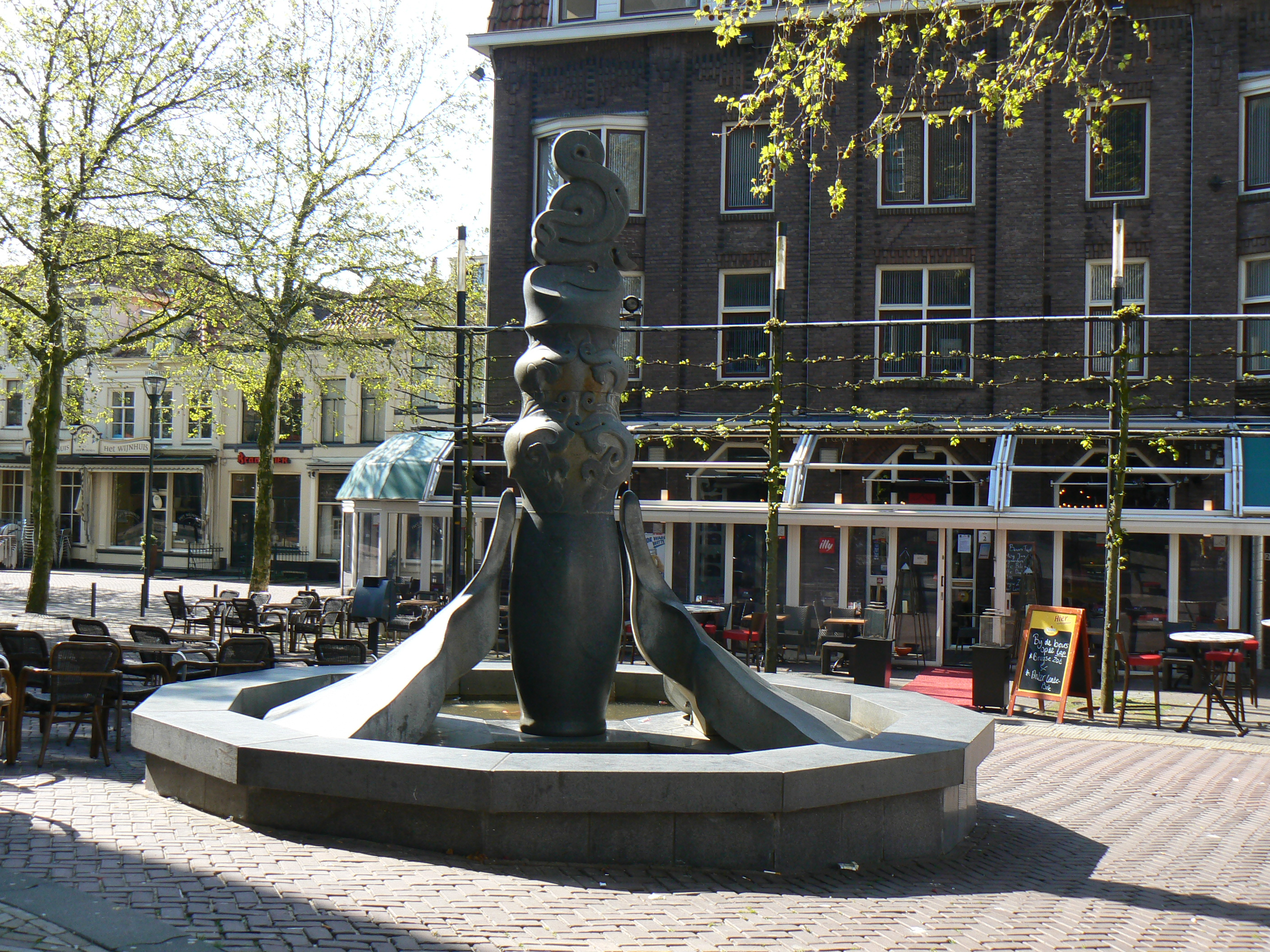 fountain Grote Markt in Zwolle/The Netherlands